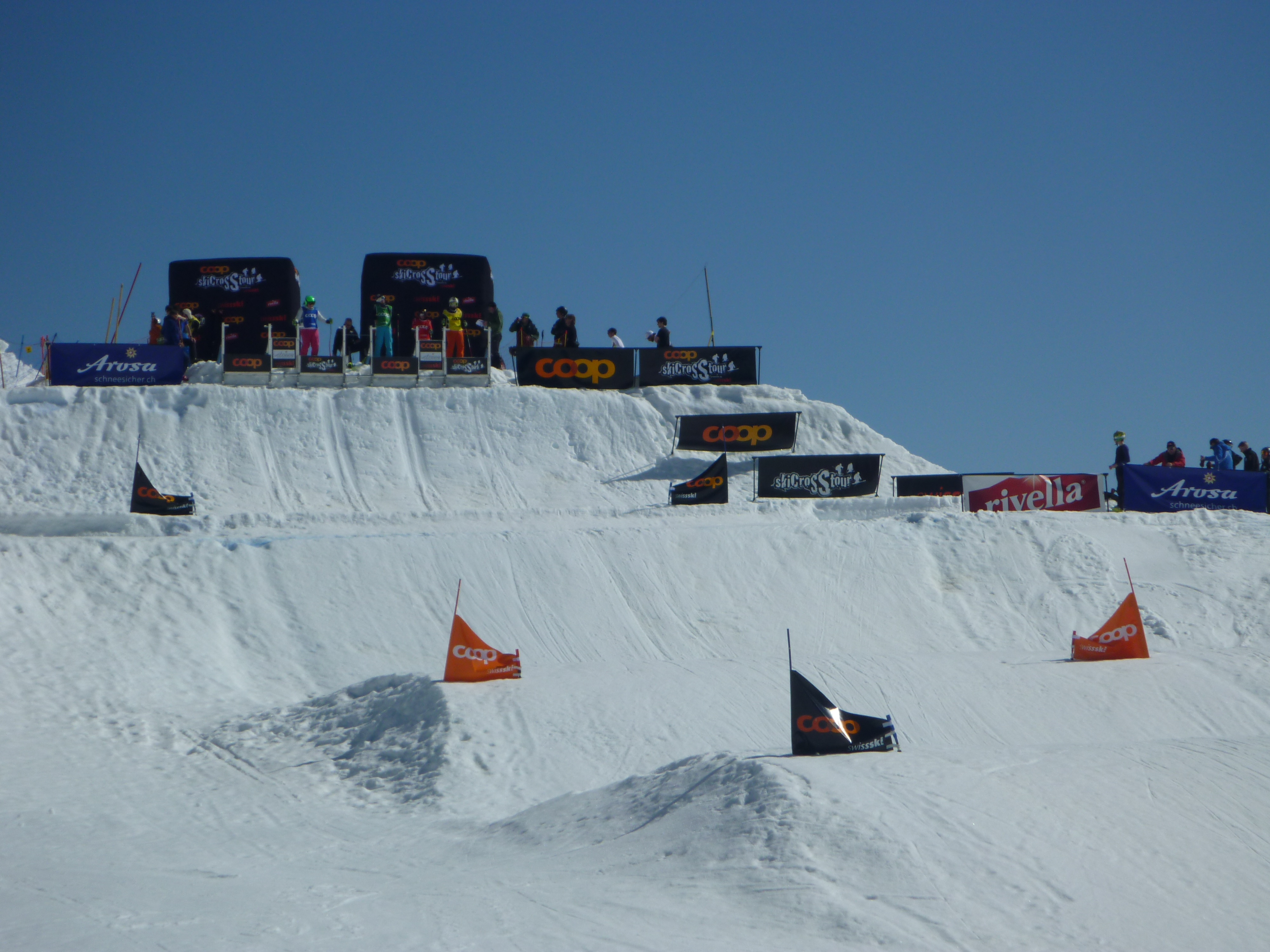 Skicross racing in Arosa/Switzerland